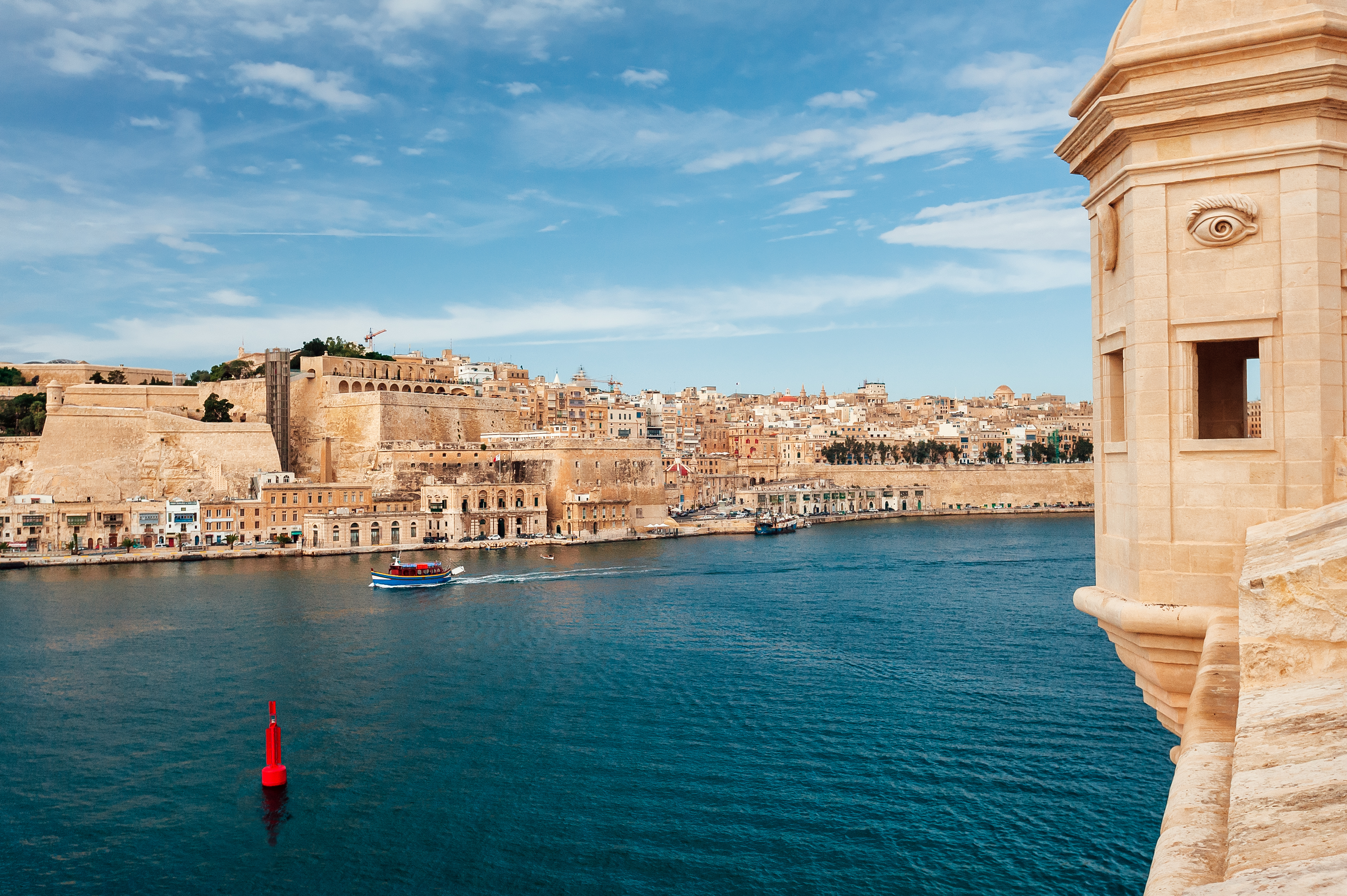 View at the Valletta fortifications: Saint Peter and Paul Counterguard and Bastion, Upper Barrakka Gardens and Lascaris Battery. Saint Michael Cavalier is on the right. This media is about Maltese cultural property with inventory number 01614.